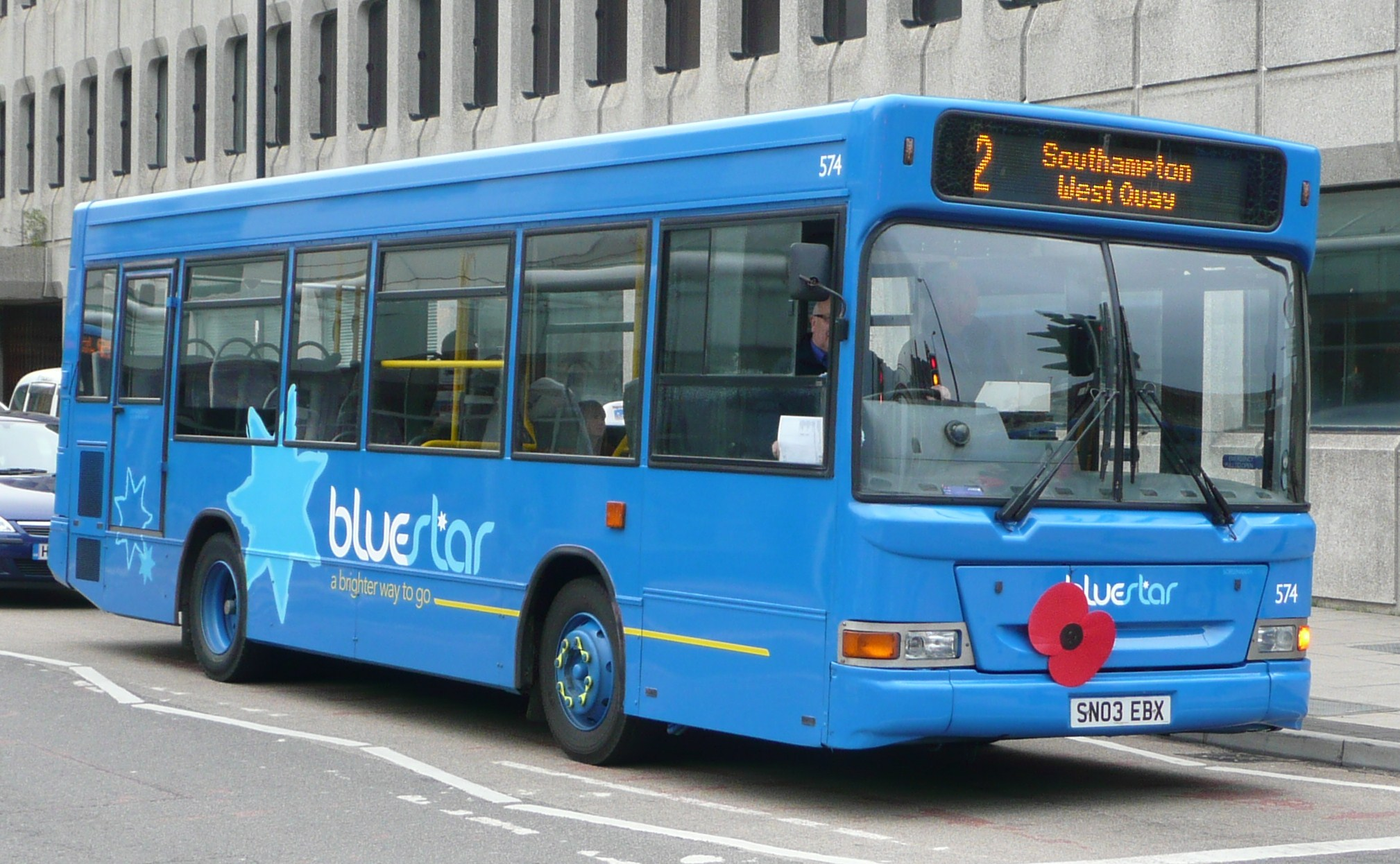 Bluestar 574 (SN03 EBX), a Dennis Dart/Plaxton Pointer MPD in Southampton on route 2. At the time, it was only one of two in the Bluestar livery, the other Mini Pointer Darts still being in Red Rocket base livery with Bluestar vinyls.